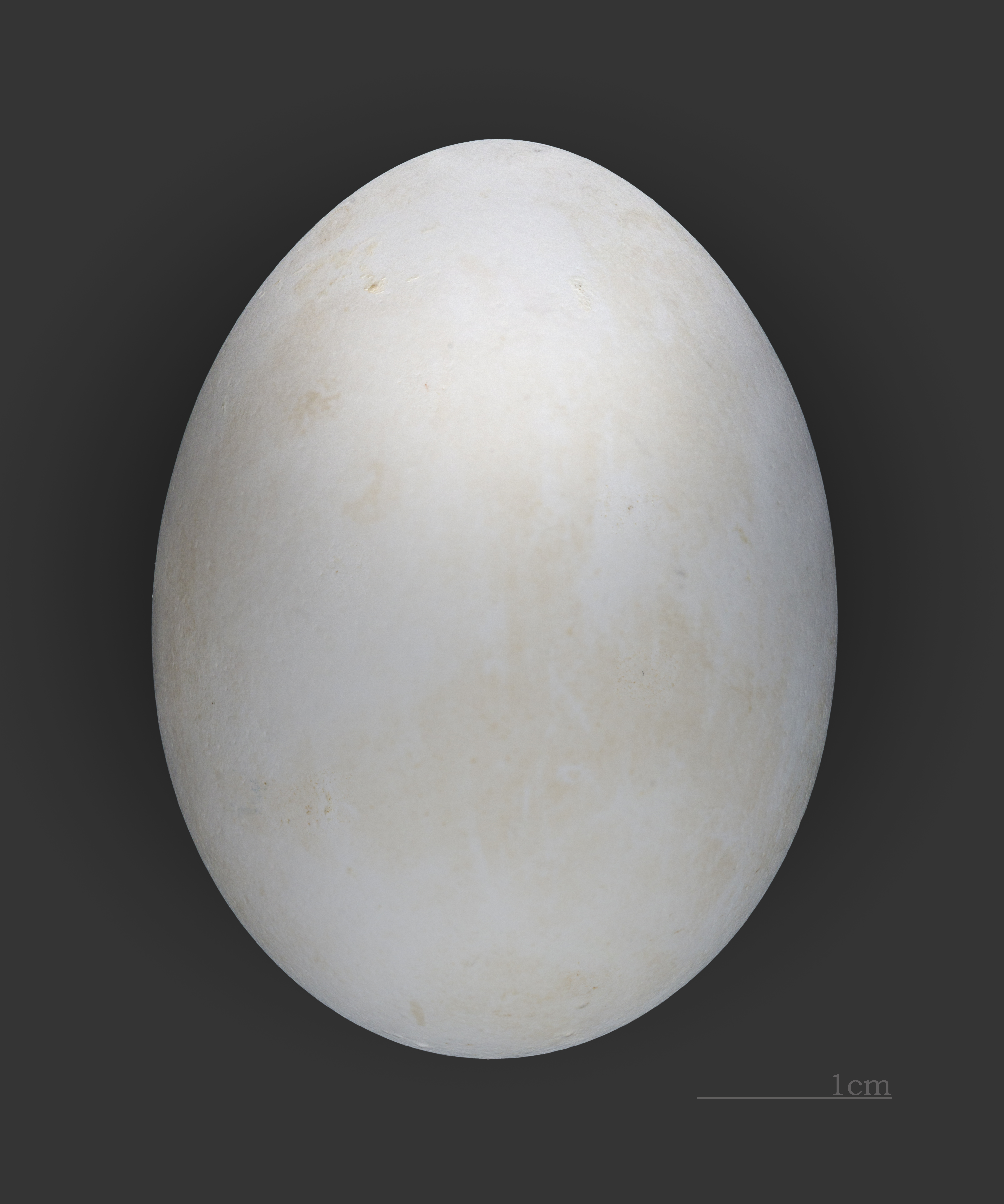 Egg of Boyd's shearwater. Collection of René de Naurois /Jacques Perrin de Brichambaut.